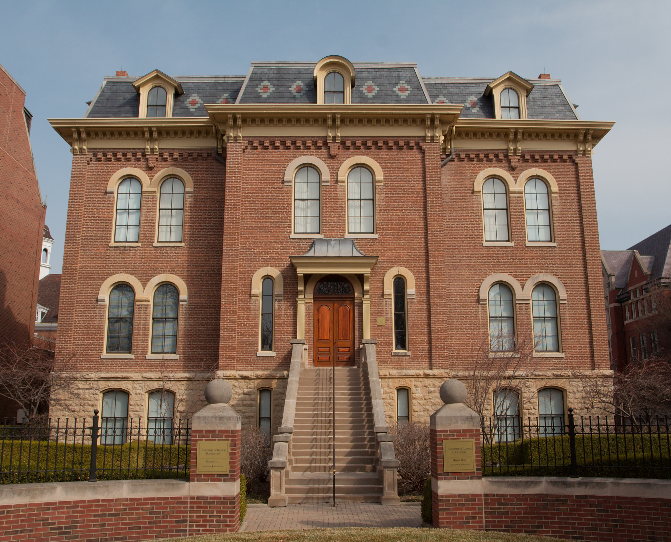 Urbana, IL Chemical Laboratory ** (added 1986 - Building - #86003148) Also known as Harker Hall 1305 W. Green St., Urbana Historic Significance: Person, Event, Architecture/Engineering Architect, builder, or engineer: Et al., Ricker,Nathan Clifford Architectural Style: Second Empire Historic Person: Ricker,Nathan Clifford Significant Year: 1896, 1902, 1877 Area of Significance: Architecture, Education Period of Significance: 1875-1899, 1900-1924 Owner: State Historic Function: Education Historic Sub-function: College, Research Facility Current Function: Education Current Sub-function: College, Research Facility